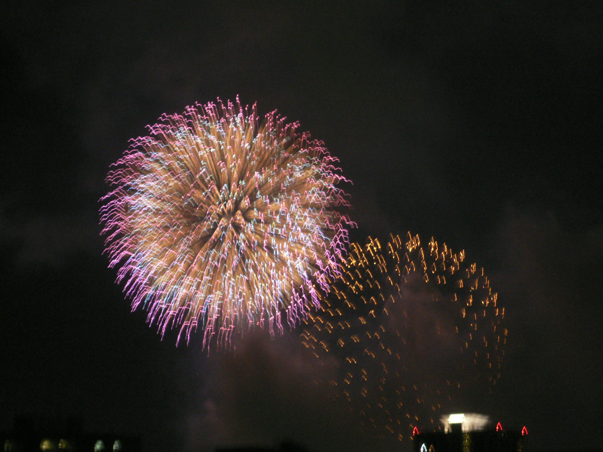 Tokyo Bay Grand Fireworks Festival (Tokyo wan dai hanabi takai/東京湾大華火大会), Chuo W, Tokyo M.